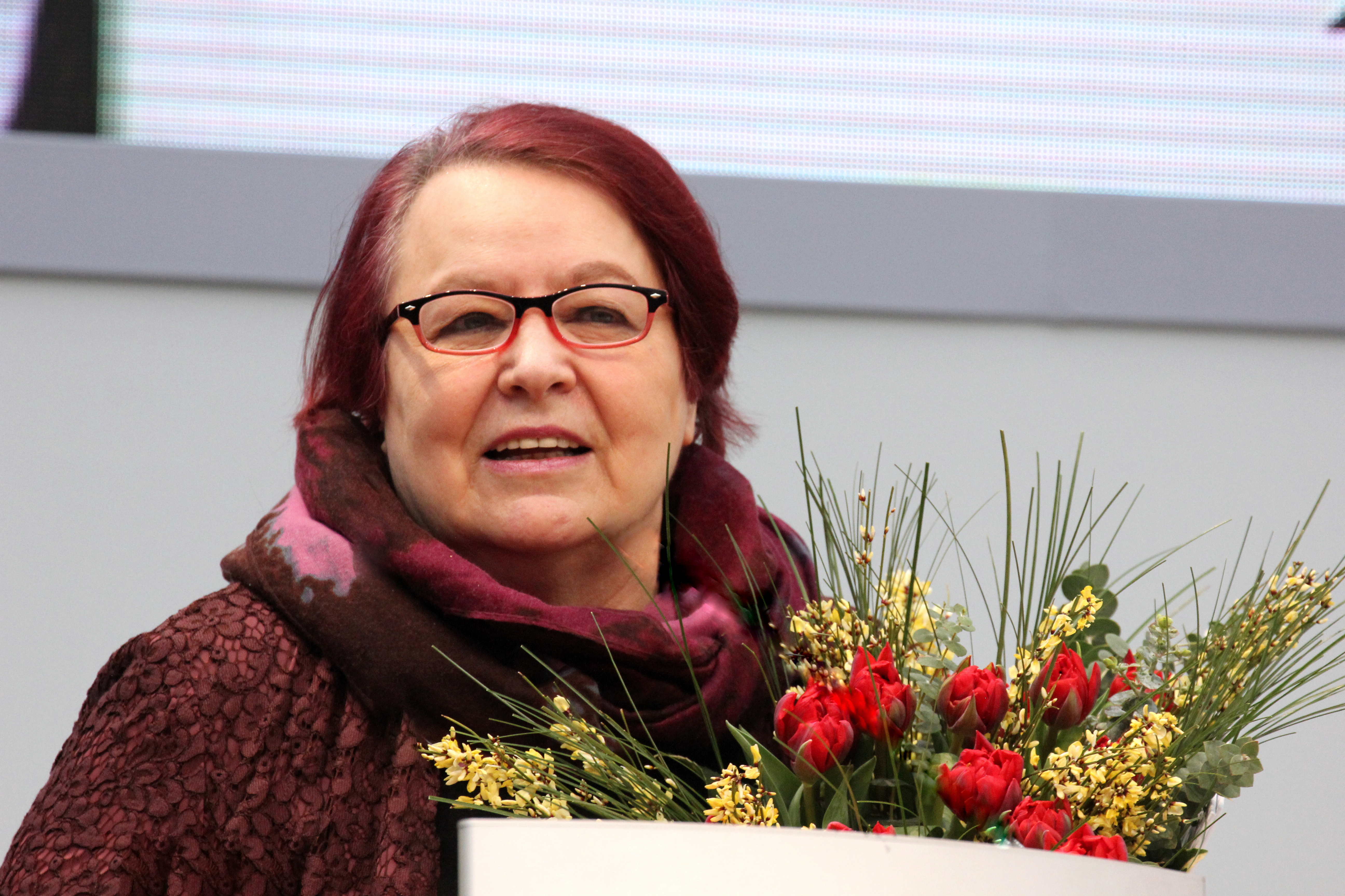 Natascha Wodin Leipzig Book Fair 2017